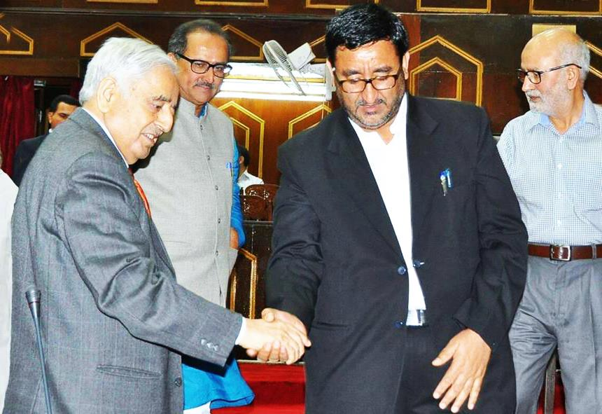 This picture is of CM J&K,Mufti Mohammed Sayeed and Haji Anayat Ali during the laters oath taking ceremony on being elected as Chairman LC on 12 April, 2015.